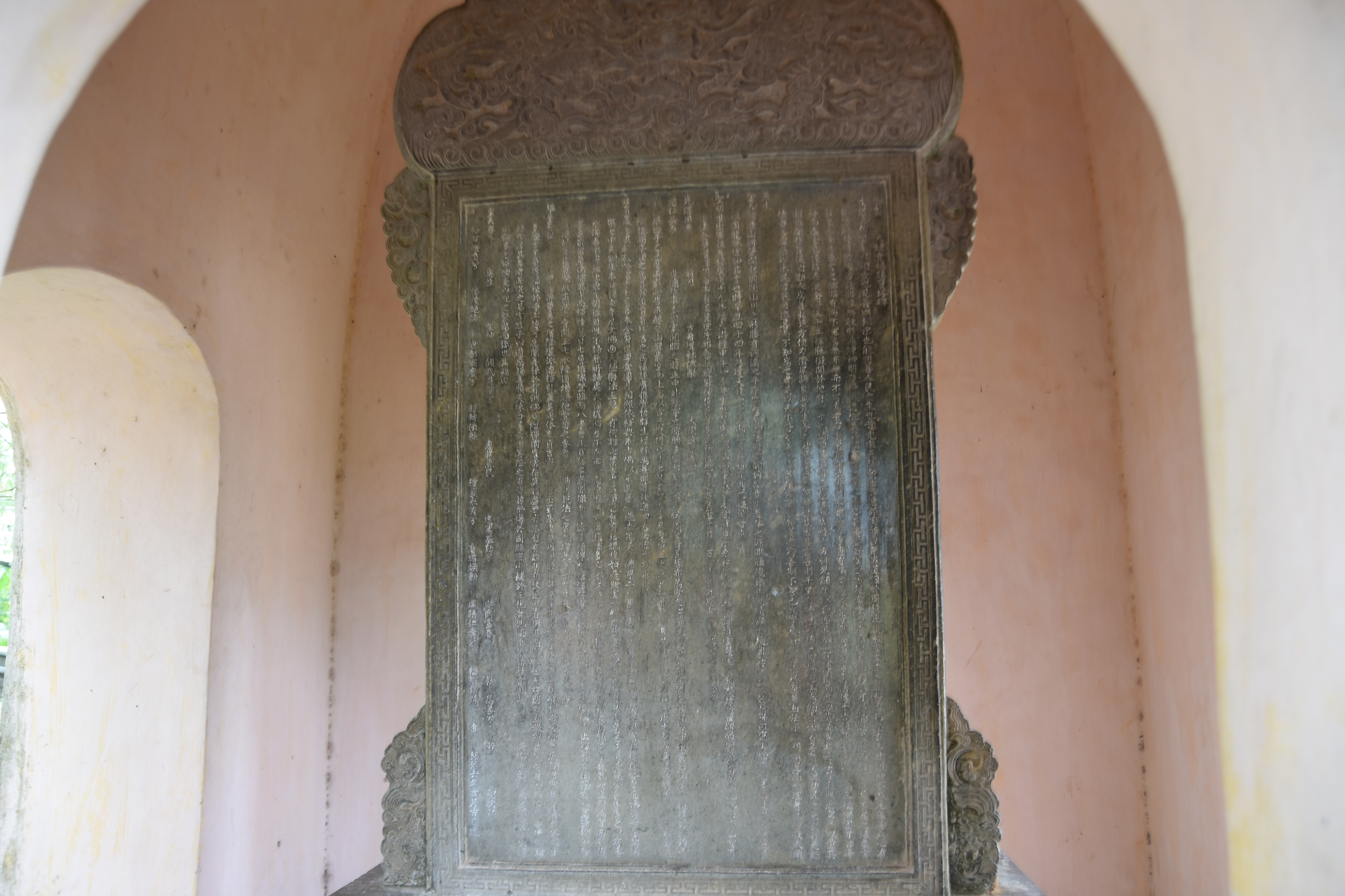 And as is characteristic with all temples in Vietnam, here is a stone turtle with a stele on its back. I did not photograph the turtle itself which is set at the bottom of this stone slab as I found the inscriptions on the slab more interesting. The turtle with stone slab on it's back is a standard feature of most Vietnamese temples and usually contains teachings or religious scriptures. The use of a turtle is symbolic as it is said to represent permanence, sincerity and longevity. This particular one in the Thien Mu pagoda grounds was cast in 1715 and records the history of Buddhism in Hue. (Hue, Central Vietnam, Nov. 2016)